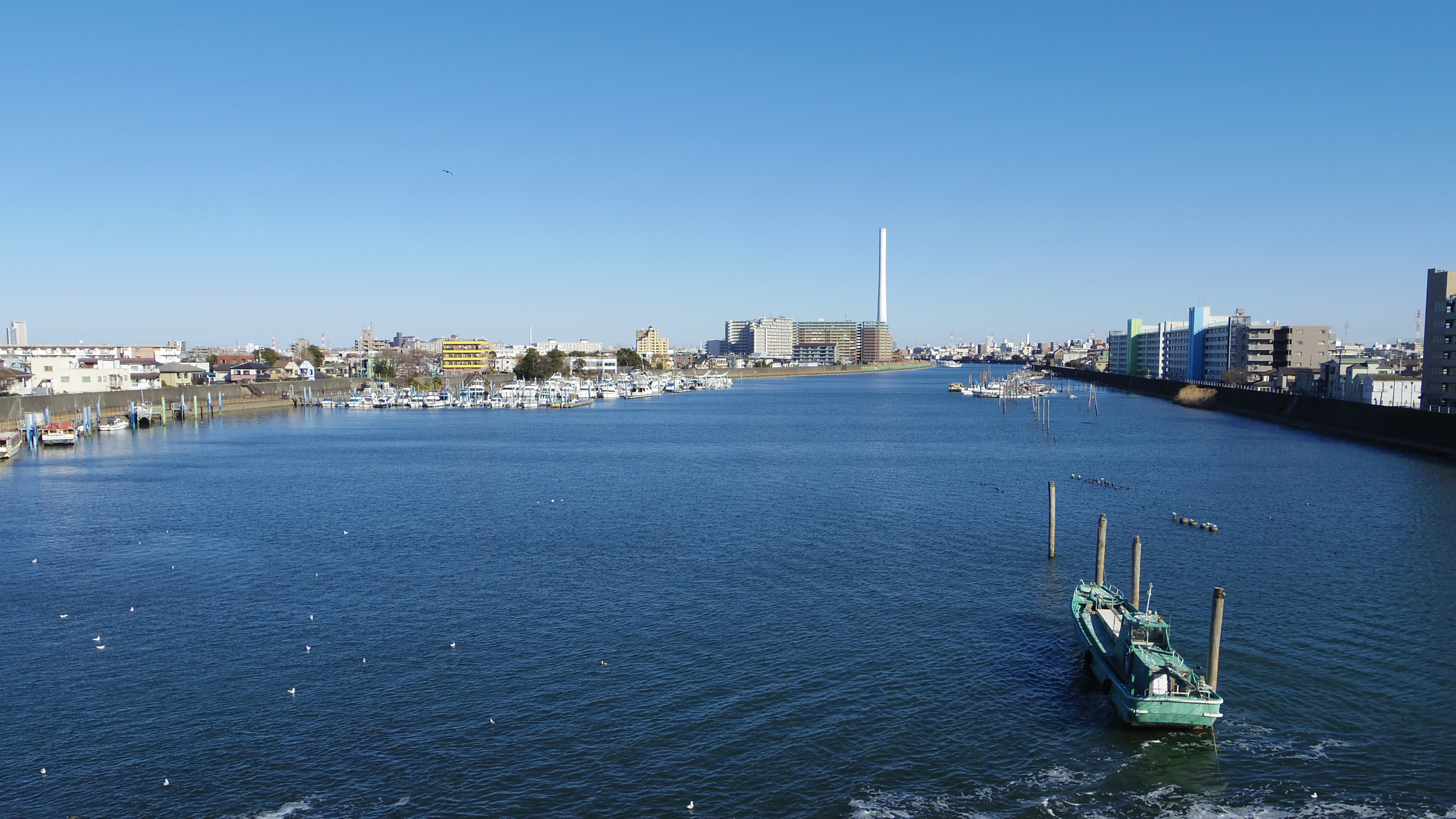 The Kyū-Edogawa River as seen from Imai Bridge